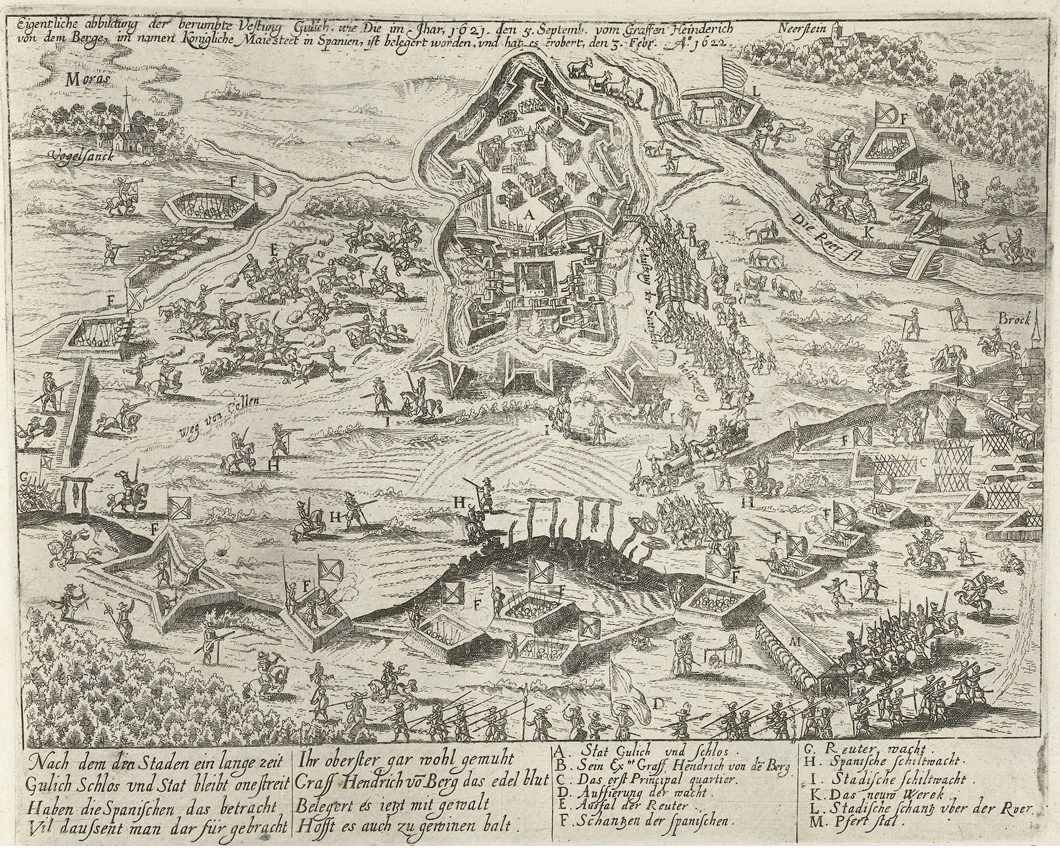 Siege and capture of Julich by Hendrik van den Bergh in 1622